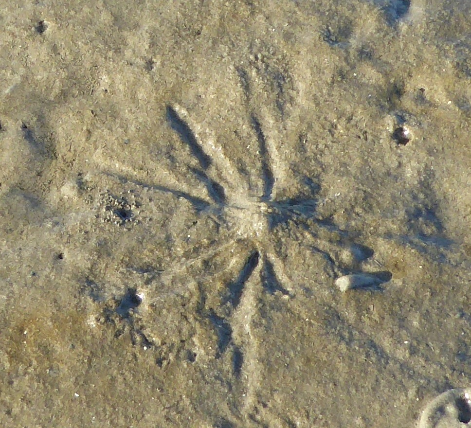 Feeding traces of Scrobicularia plana